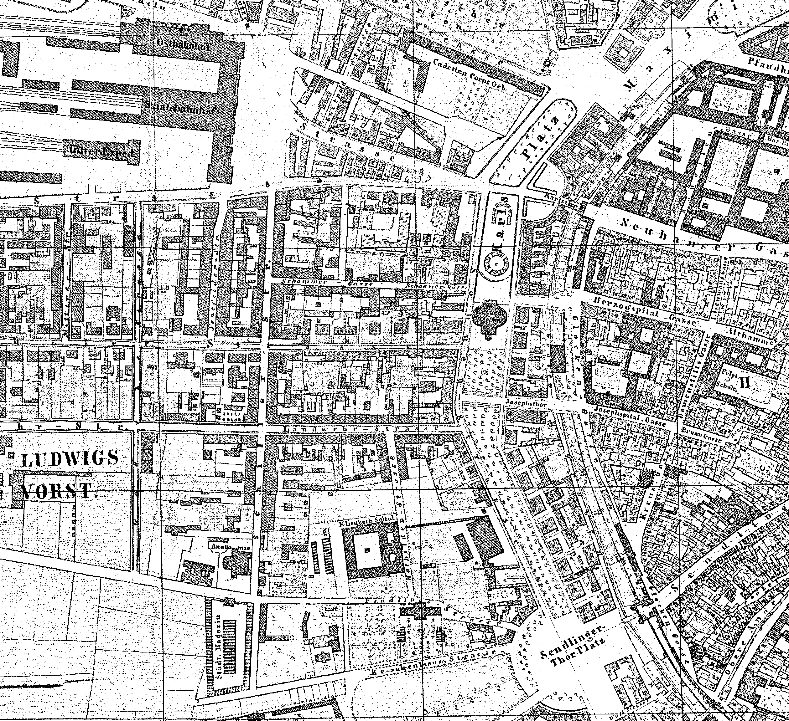 1865 Map of the "Ludwigvorstadt", a city quarter in Munich, Germany. Scale 1:5000